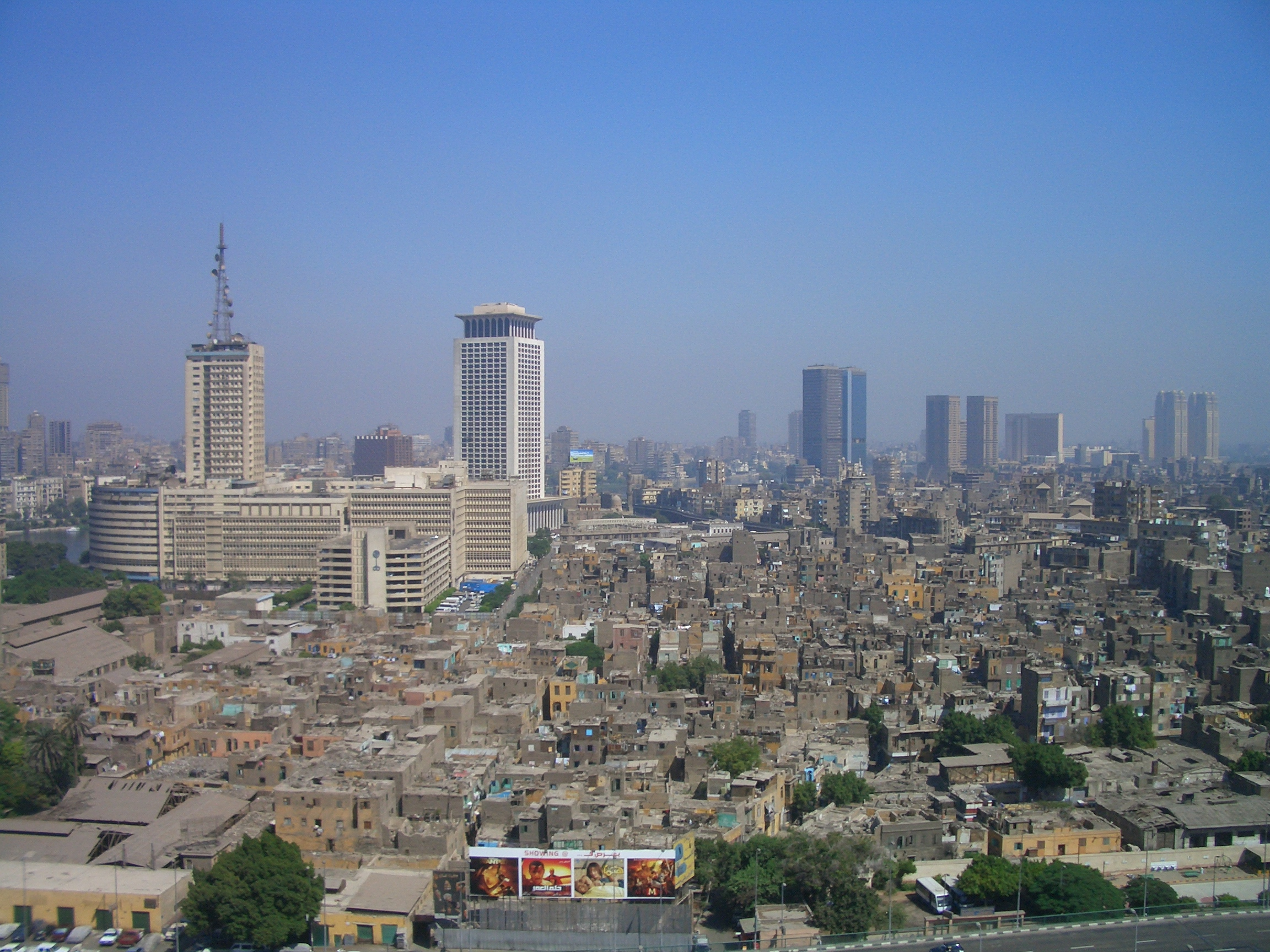 Cairo Skyline from the Hotel Isis